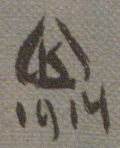 Kandinsky's signature from 1914